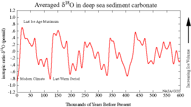 δ18O ppm in deep sea sediment for aminifera carbonates over time from 0-600,000 years. Averaged over a large number of cores in order to isolate a global signal. Original caption: "The variations of 18O in carbonate averaged over a large number of different cores (in order to isolate a global signal) over the last 600,000 years. Most clear are the regular oscillations of the glacial ice volume which follows small changes to Earth's orbit around the Sun (Milankovitch forcing)." cited as reference: Schmidt, G.A. 1999. Forward modeling and interpretation of carbonate proxy data using oxygen isotope tracers in a global ocean model. Paleoceanography 14, 482-497.[1] (however, this image is not part of the cited publication).